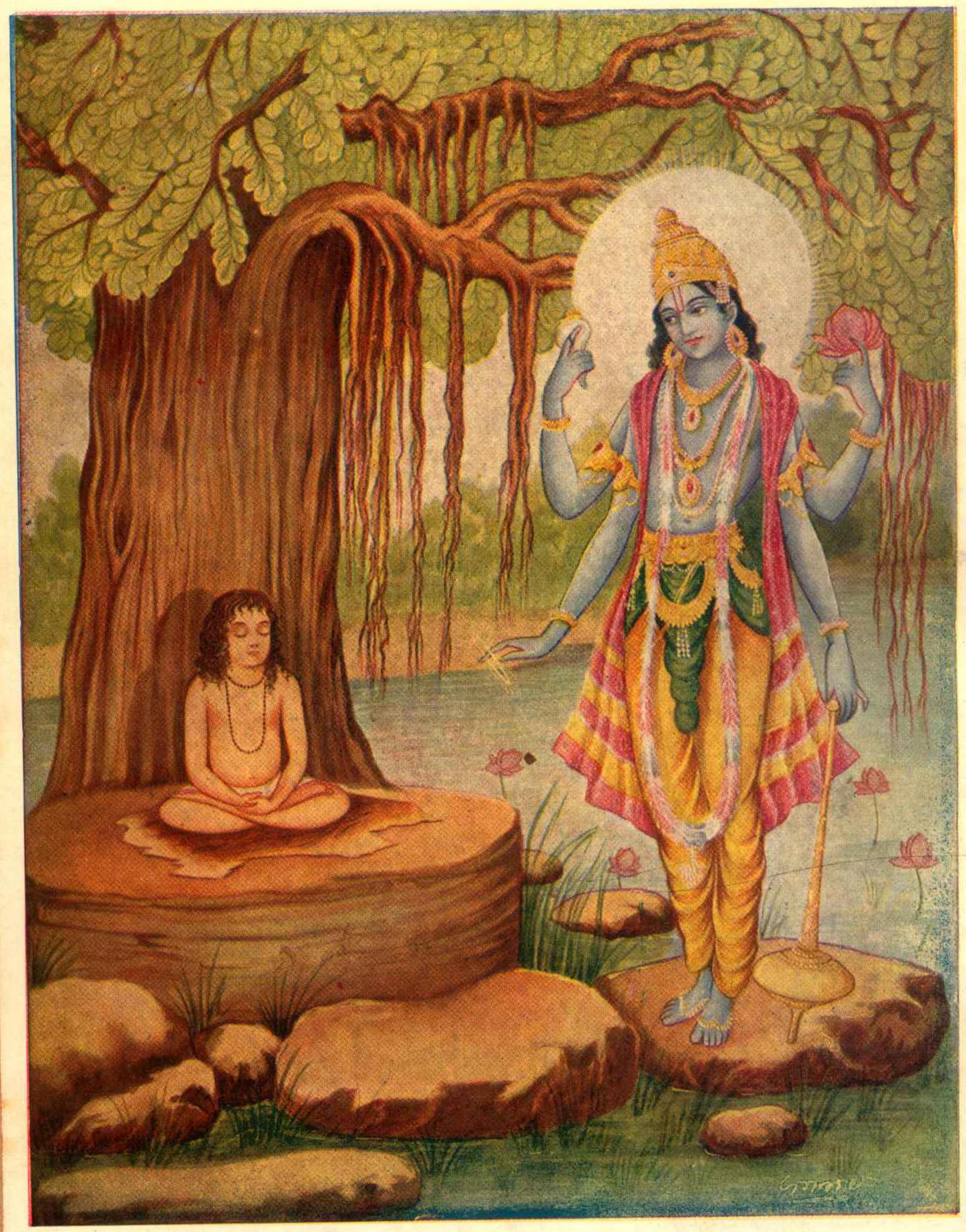 Shrimad Bhagavata Mahapurana Gita Press Gorakhpur by MahaMuni Usage Topics Sanskrit, "महामुनि का संग्रह", "Pratiek-Lucknow" Collection opensource Language Sanskrit Indological Books , 'Shrimad Bhagavata Mahapurana - Gita Press Gorakhpur.pdf' Identifier ShrimadBhagavataMahapuranaGitaPressGorakhpur Identifier-ark ark:/13960/t1bk7m619 Ocr language not currently OCRable Ppi 600 Scanner Internet Archive HTML5 Uploader 1.6.3